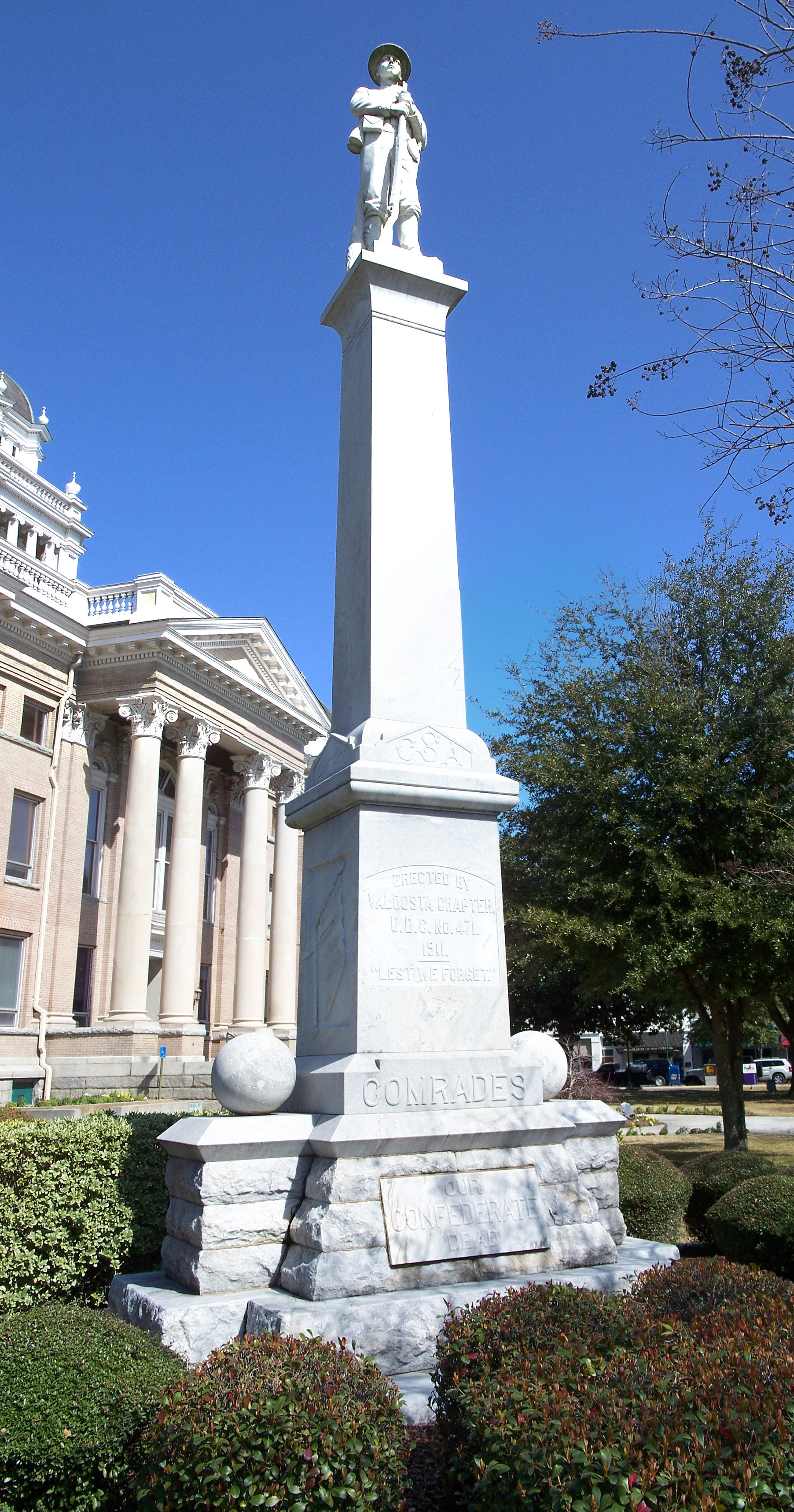 Valdosta, Georgia: Monument outside the Lowndes County Courthouse.